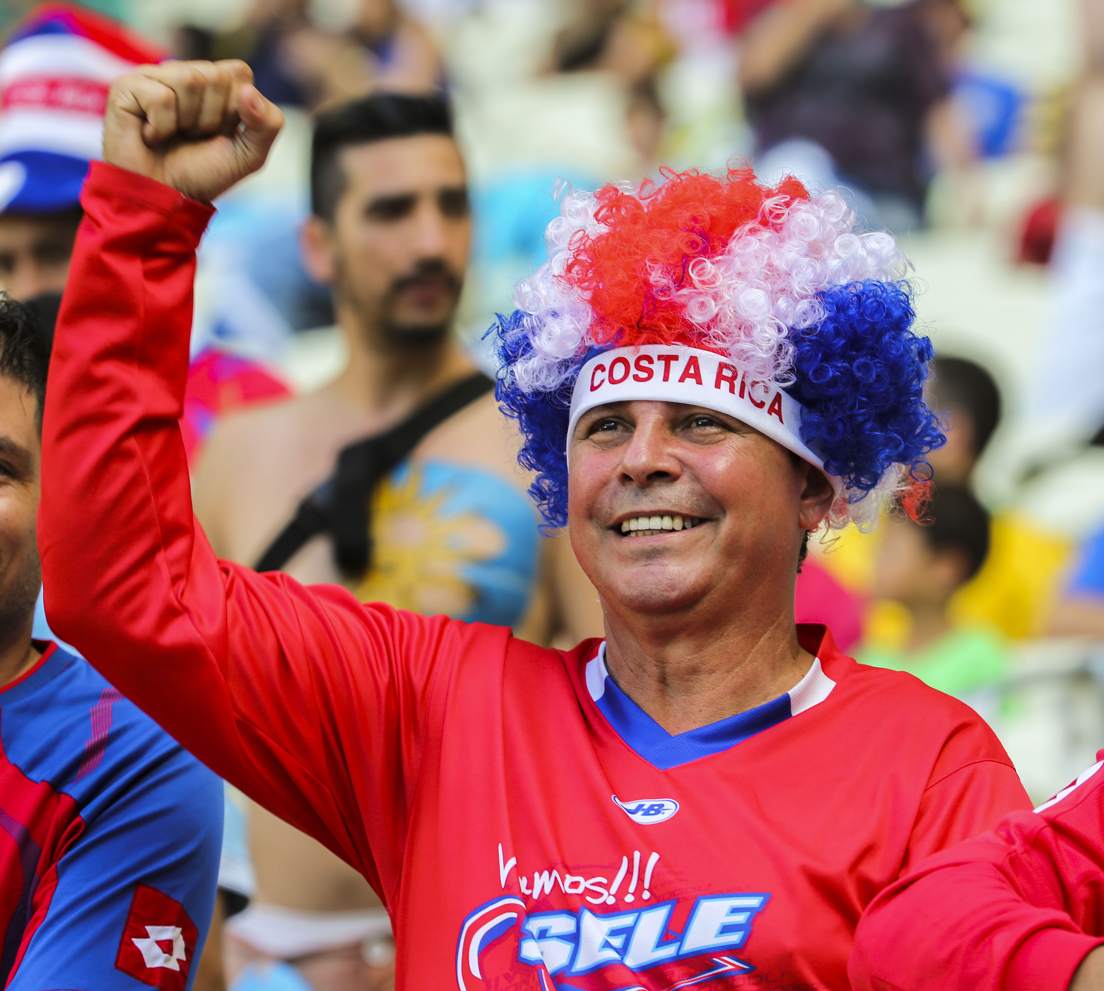 Uruguay - Costa Rica FIFA World Cup 2013 (2014-06-14; fans) 01